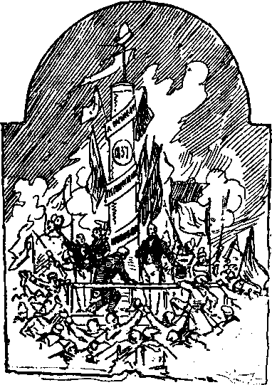 The Colonne de la liberté of Saint-Charles, drawn by Henri Julien for the newspaper The Montreal Star.